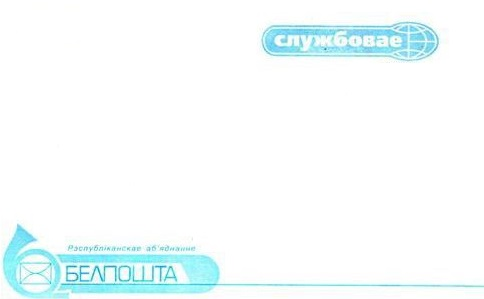 Service cover of Belpost.